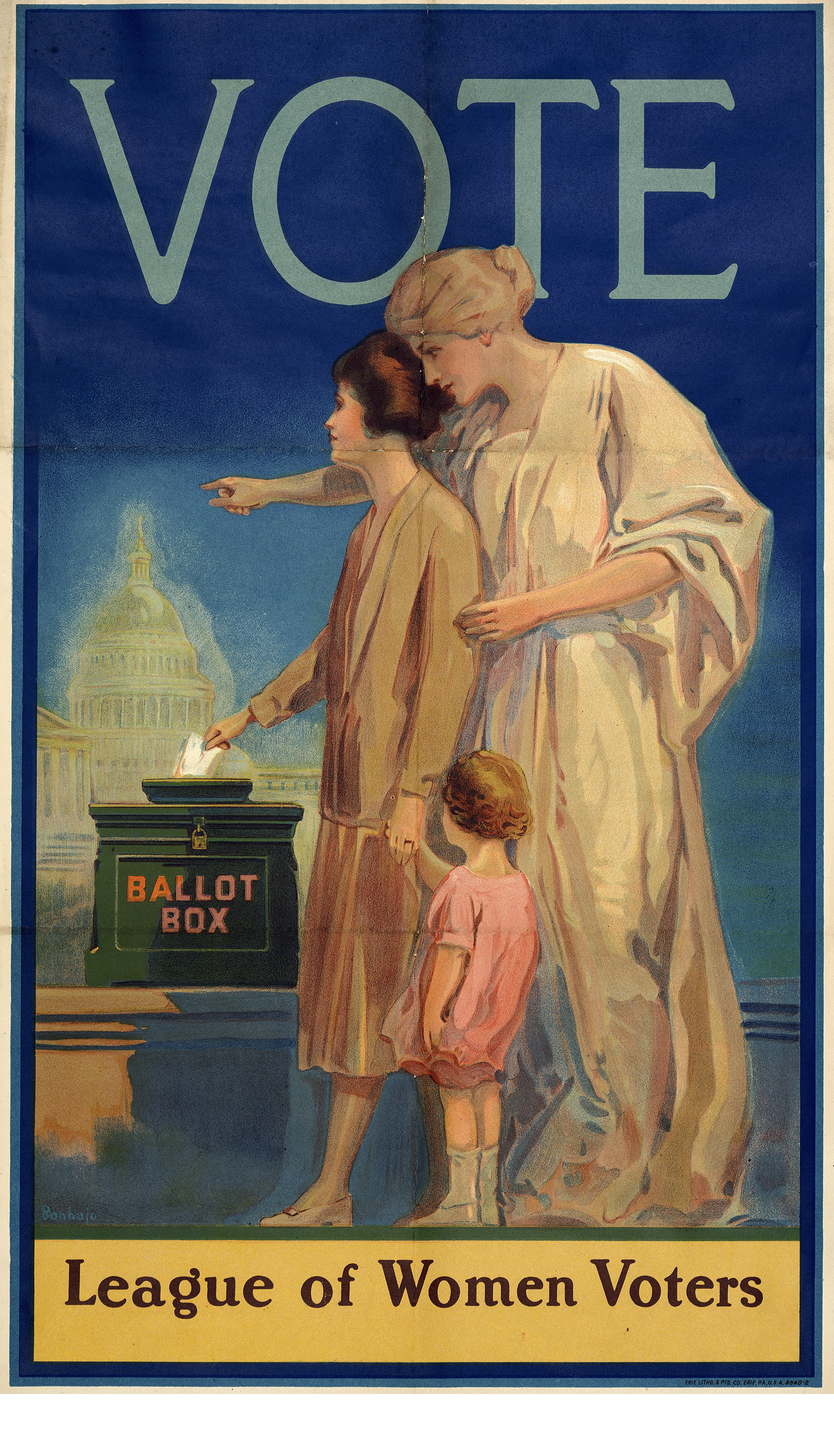 VOTE poster by League of Women Voters (1920?) Woman, with daughter, placing ballot in box, female spirit behind her pointing to U.S. Capitol.